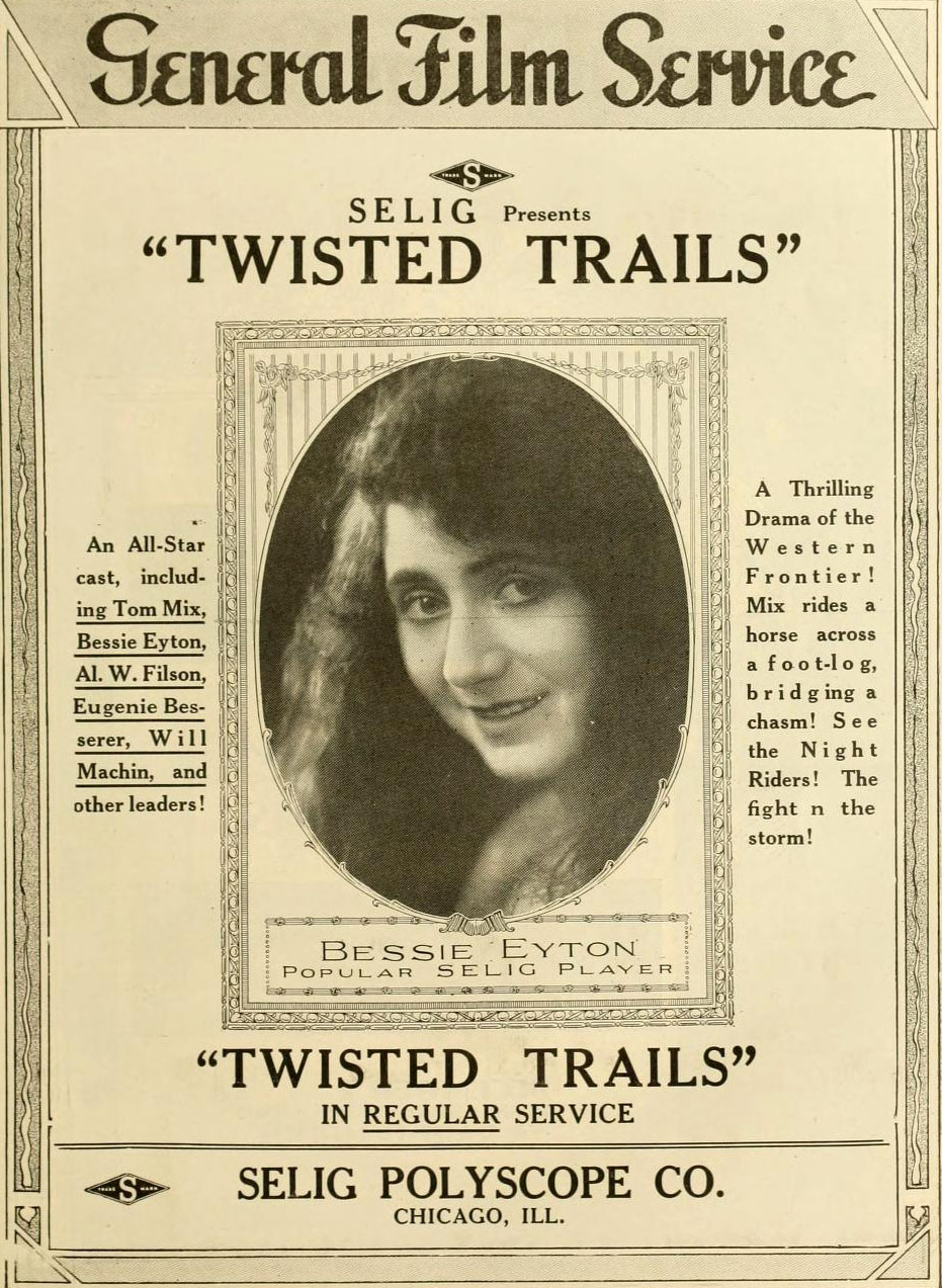 Advertisement in Moving Picture World for the American western film Twisted Trails (1916).